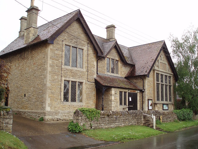 The Reading Room, Helmdon, Northamptonshire. It is used as the village hall.